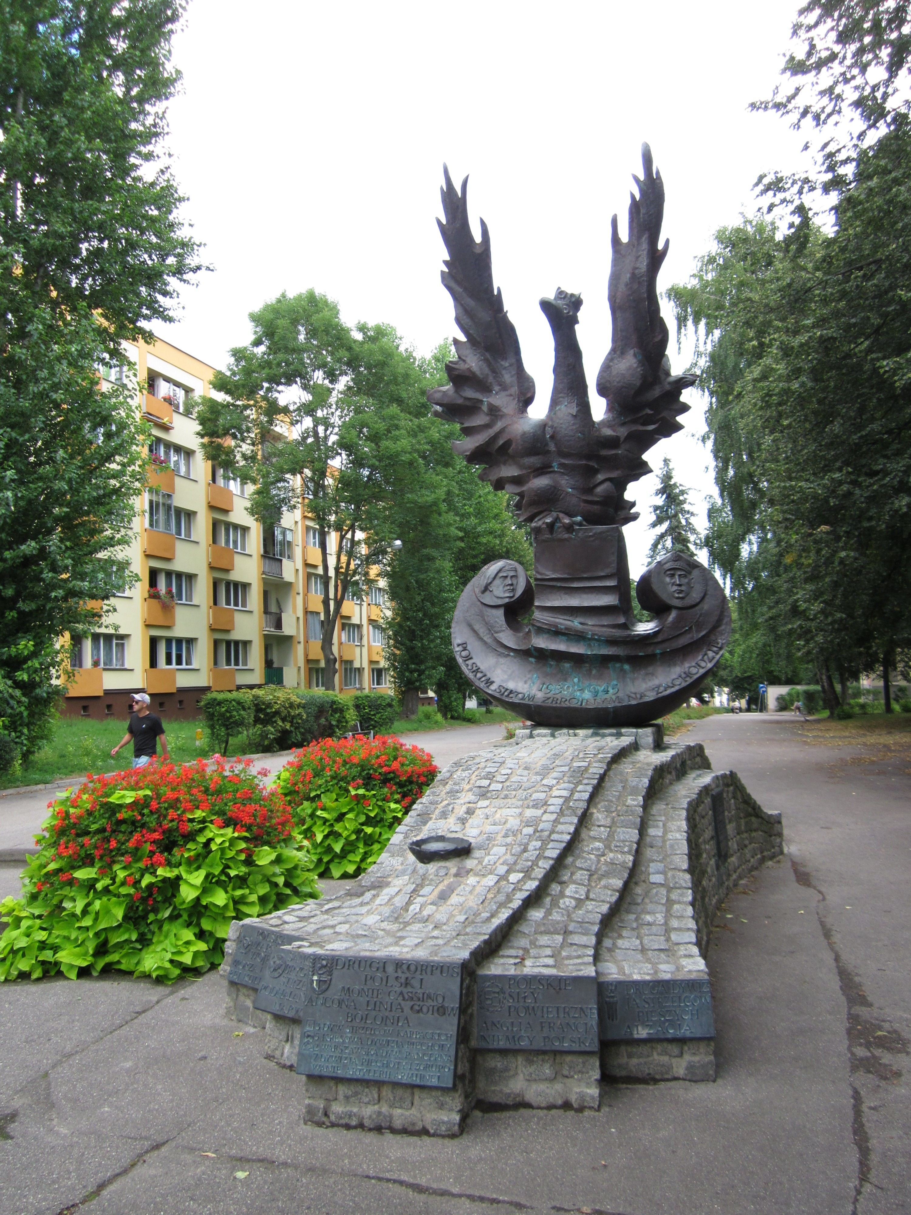 Monument dedicated to the Polish Armed Forces in the West in Białystok (Skłodowskiej-Curie street 7/9).